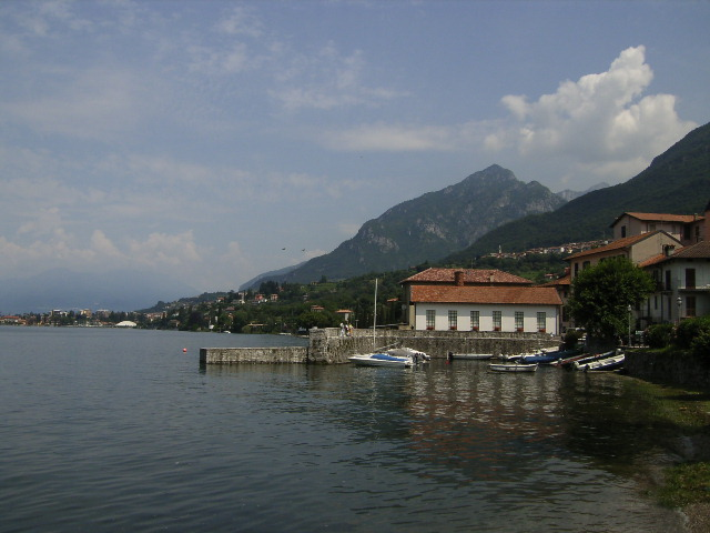 Small harbour in Abbadia Lariana, seen from via Lungolago.